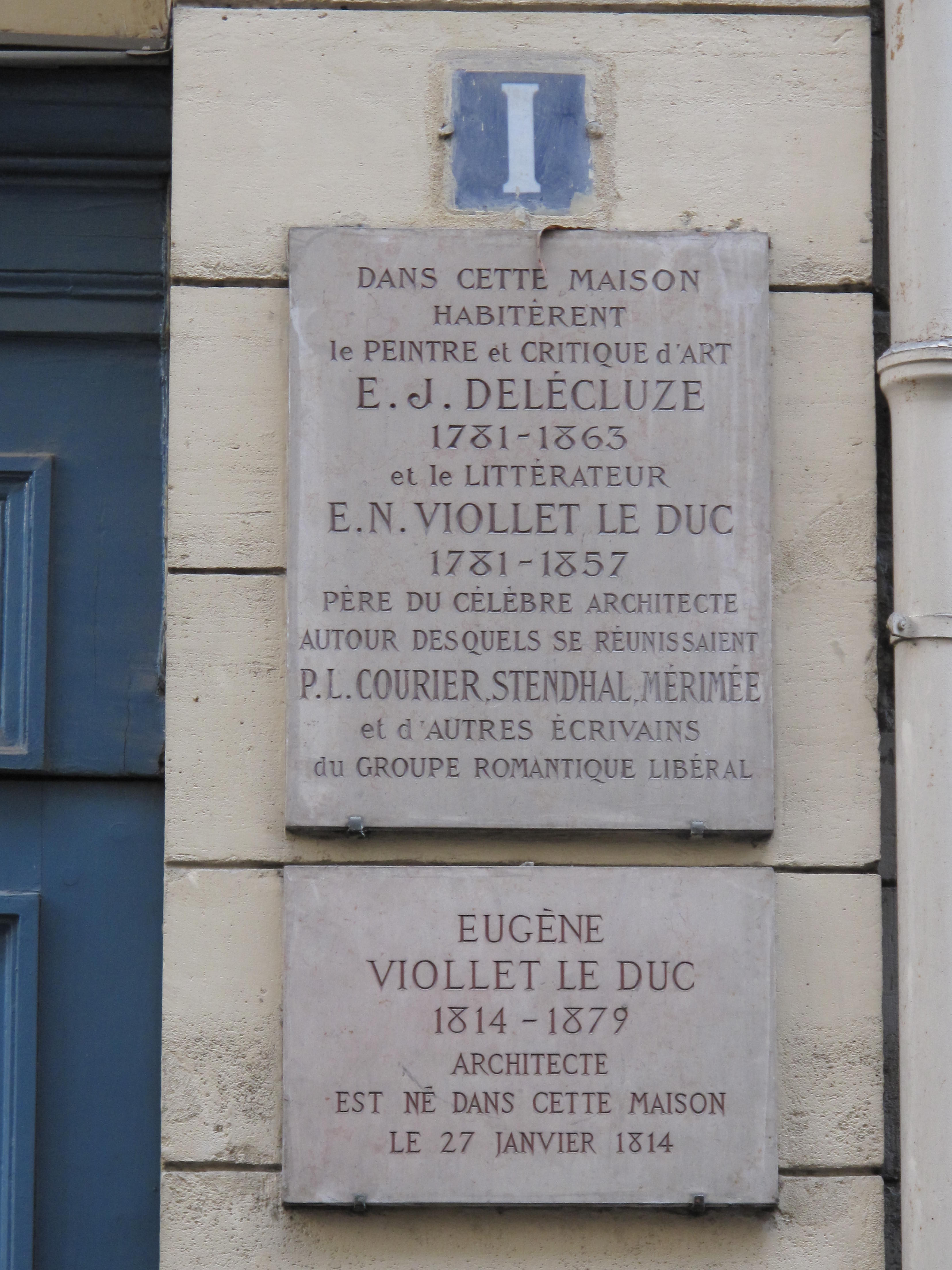 Plaque on the house where was born the great french architect Viollet-le-Duc (1814-1879) : 1 rue Chabanais, Paris 2nd arr.